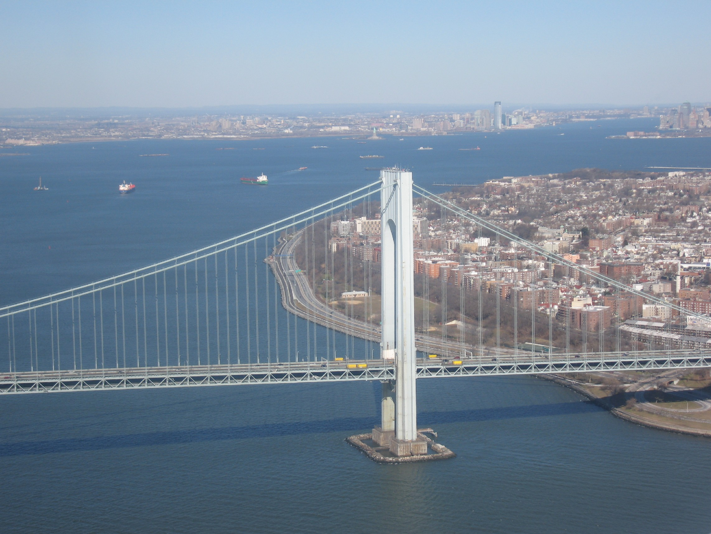 Verrazano Narrows Bridge Aerial View